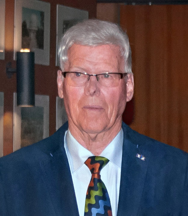 Harry van der Laan – director general of ESO (1988–1992)